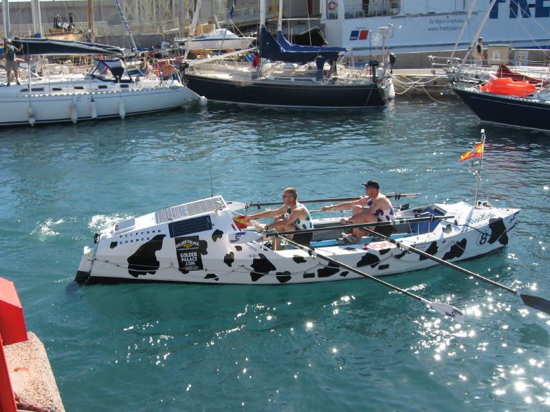 Boat C2 at start of 2005 Atlantic Rowing Race